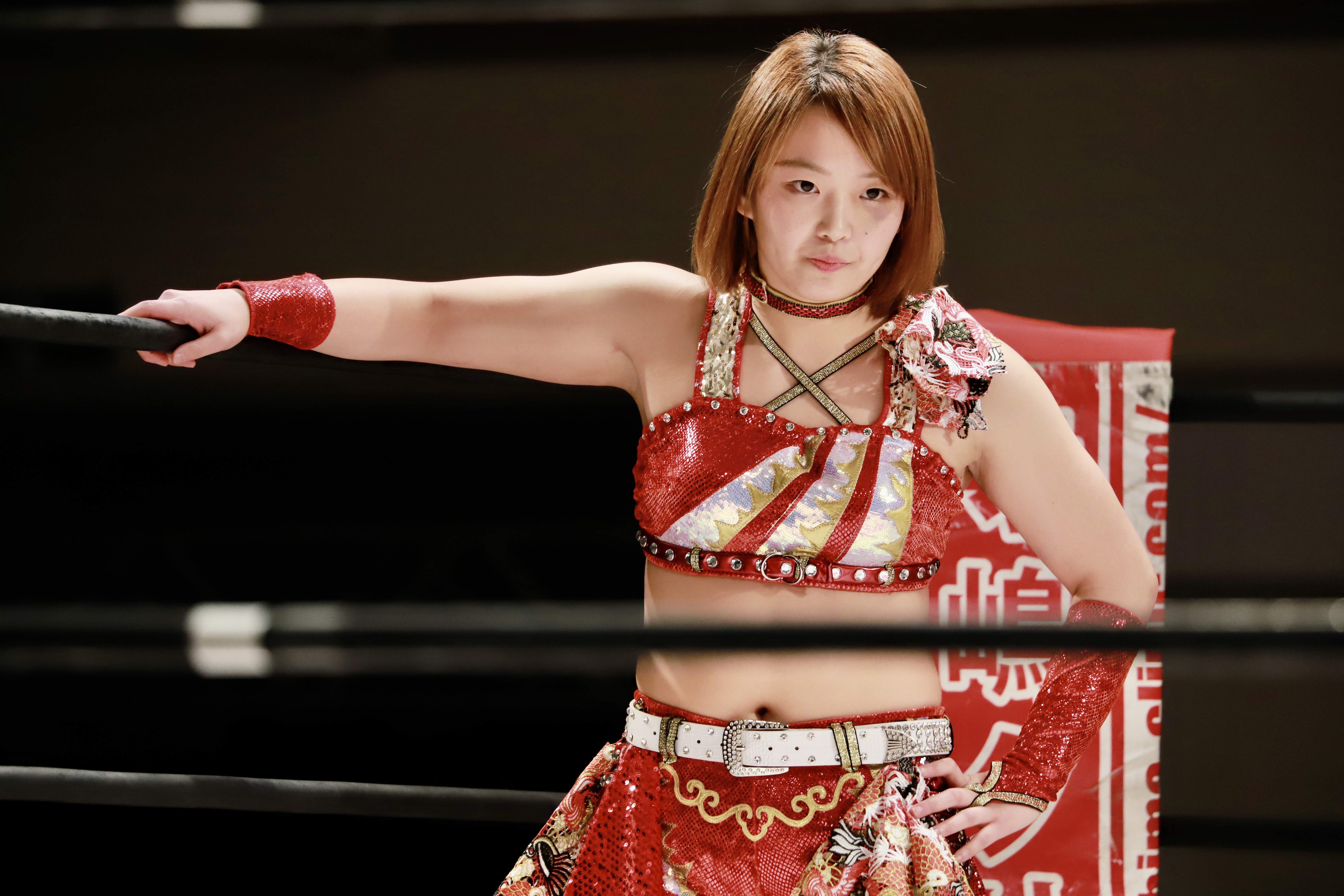 Sareee 04.01.2020